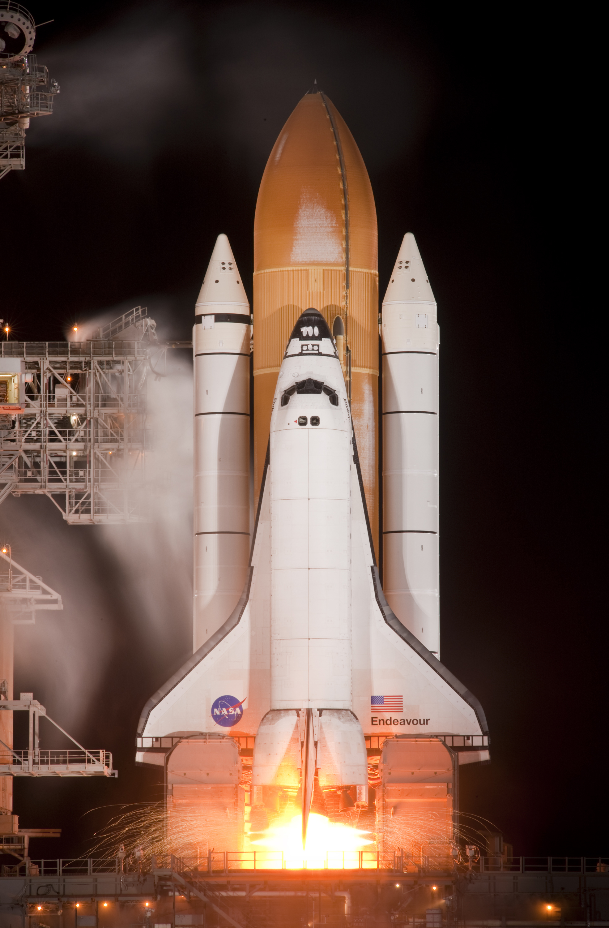 CAPE CANAVERAL, Fla. - At Launch Pad 39A at NASA's Kennedy Space Center in Florida, space shuttle Endeavour is moments away from launching as sparks fly below the shuttle's main engines. The "sparklers" are the external ignitors which burn off any concentration of hydrogen present in the vicinity of the engines. The cloud forming behind the shuttle's solid rocket booster and the pad's access arm is created by spray from the water deluge system. Launch of the STS-130 mission to the International Space Station was at 4:14 a.m. EST. This was the second launch attempt for space shuttle Endeavour's STS-130 crew and the final scheduled space shuttle night launch. The first attempt on Feb. 7 was scrubbed due to unfavorable weather. The primary payload for the STS-130 mission to the International Space Station is the Tranquility node, a pressurized module that will provide additional room for crew members and many of the station's life support and environmental control systems. Attached to one end of Tranquility is a cupola, a unique work area with six windows on its sides and one on top. The cupola resembles a circular bay window and will provide a vastly improved view of the station's exterior. The multi-directional view will allow the crew to monitor spacewalks and docking operations, as well as provide a spectacular view of Earth and other celestial objects. The module was built in Turin, Italy, by Thales Alenia Space for the European Space Agency. For information on the STS-130 mission and crew, visit